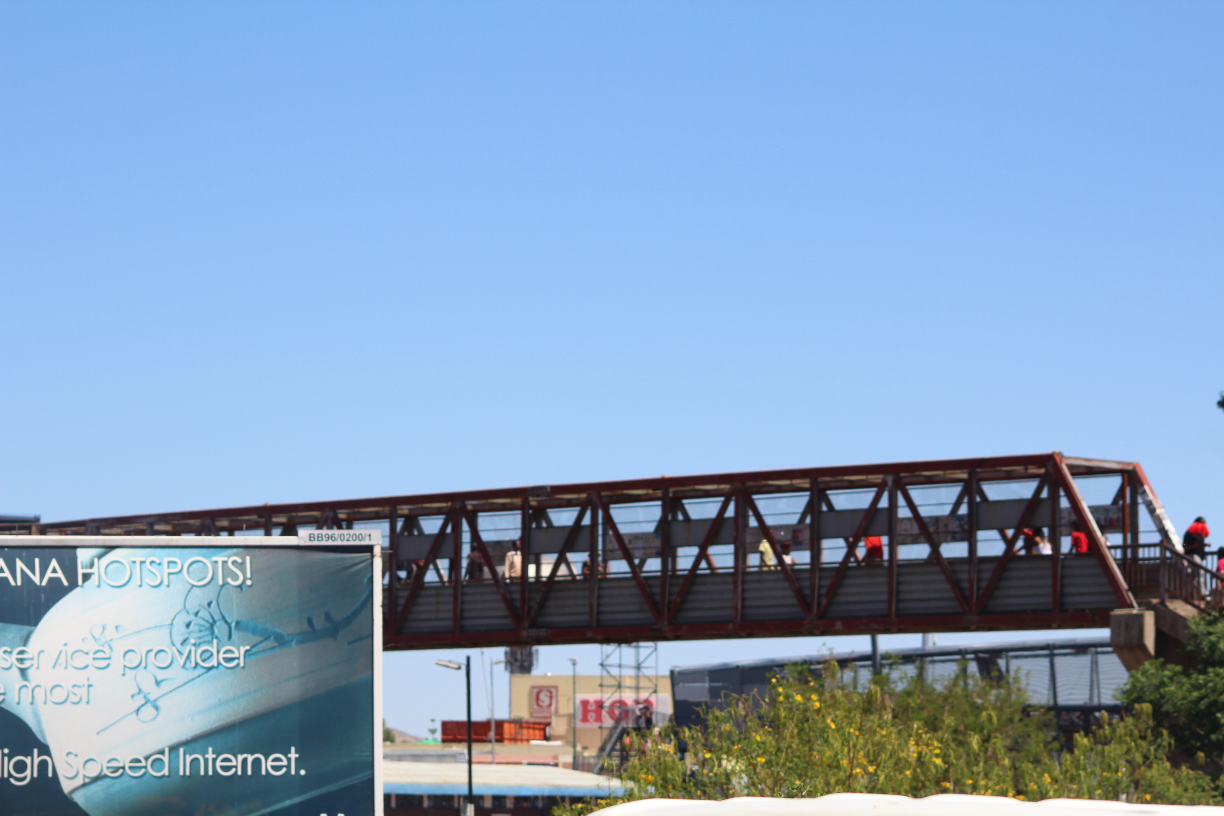 Gaborone, Station bridge 2